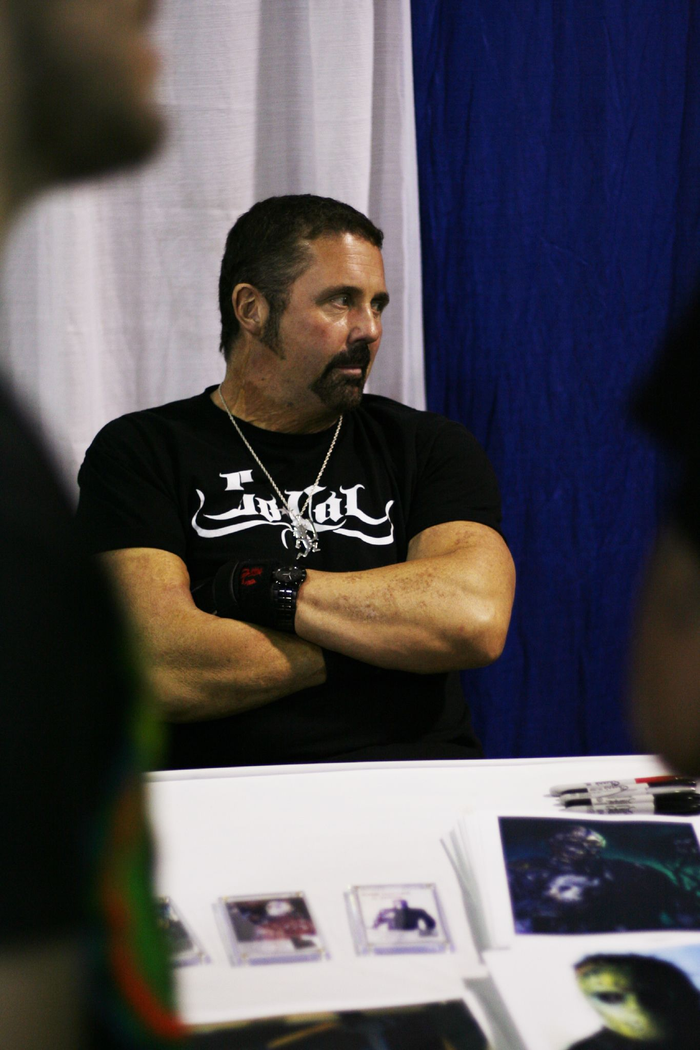 Kane Hodder, the guy that played Jason Voorhees in Friday the 13th (franchise)Friday the 13th franchise. Appearing at the 2007 Pittsburgh Comicon.